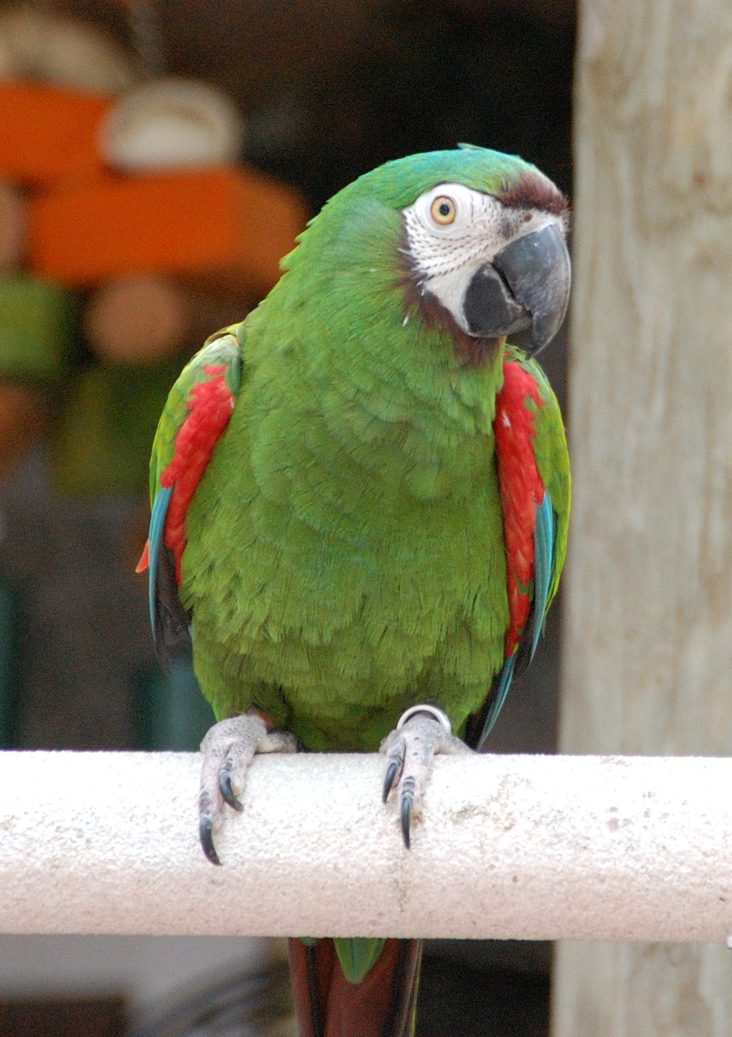 Chestnut-fronted Macaw or Severe Macaw (Ara severa) on a perch. At Southwick's Zoo, Mendon, Massachusetts, USA in August 2007.